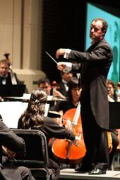 Brendan Townsend conducting the Laredo Philharmonic Orchestra in a concert at the Martinez Fine Arts Center, Laredo Community College